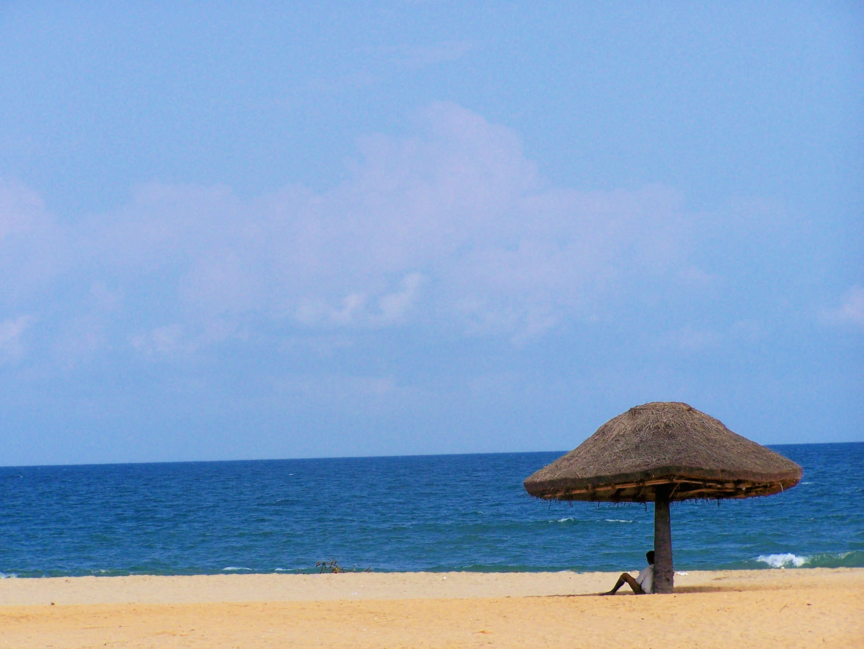 A man resting in the waters of Pondy.